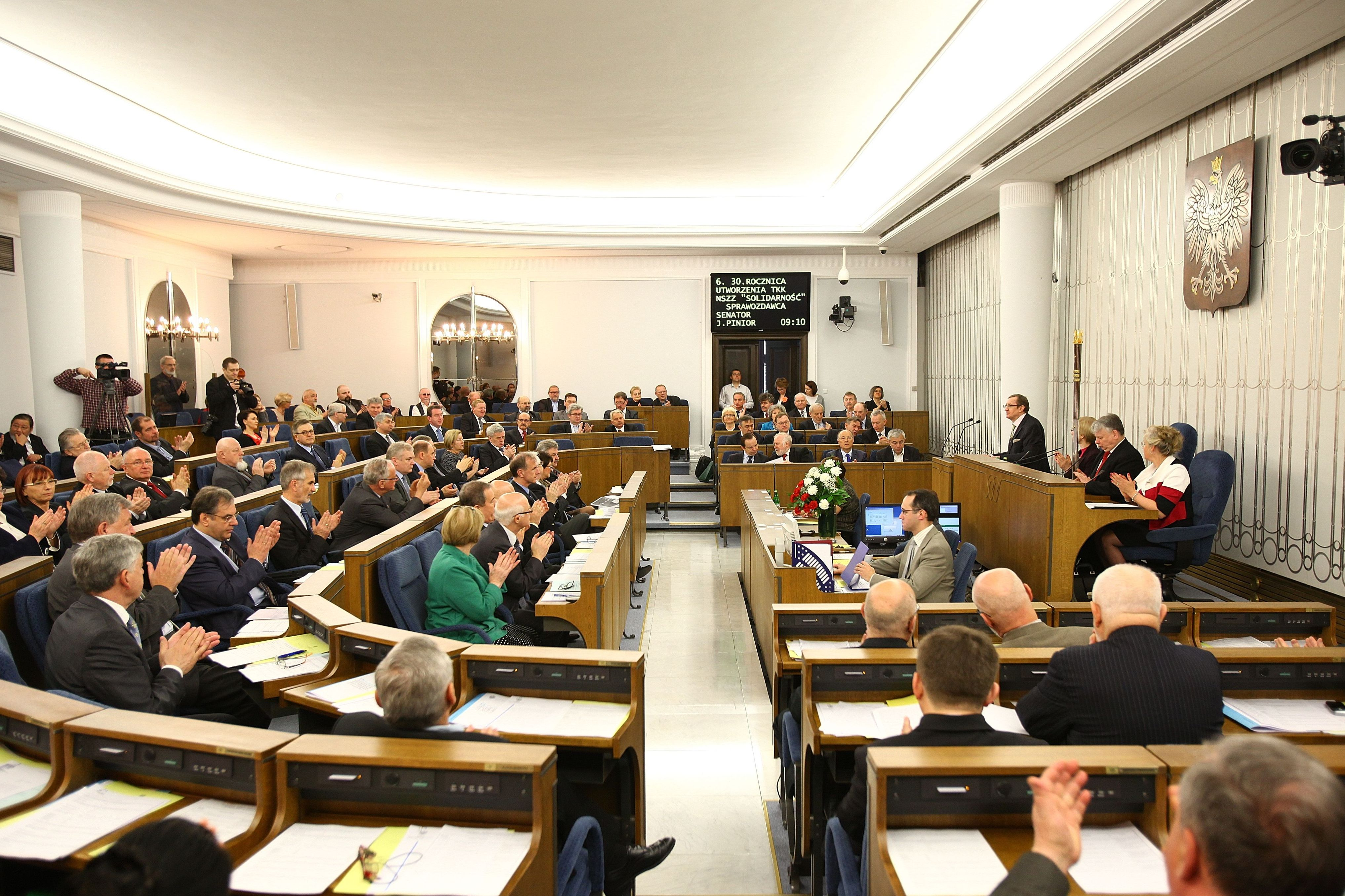 Senator Józef Pinior.10th sitting of the Polish Senate